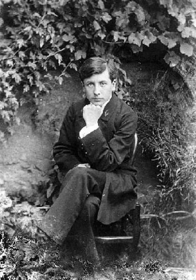 Alain-Fournier, full portrait, 1905, at Chapelle d'Angillon.